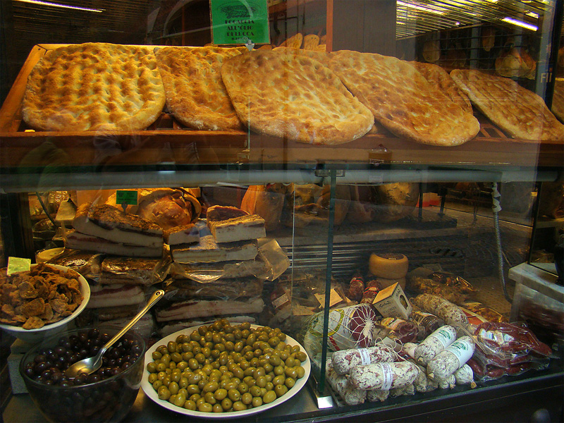 Lucca, Tuscany, Italy.